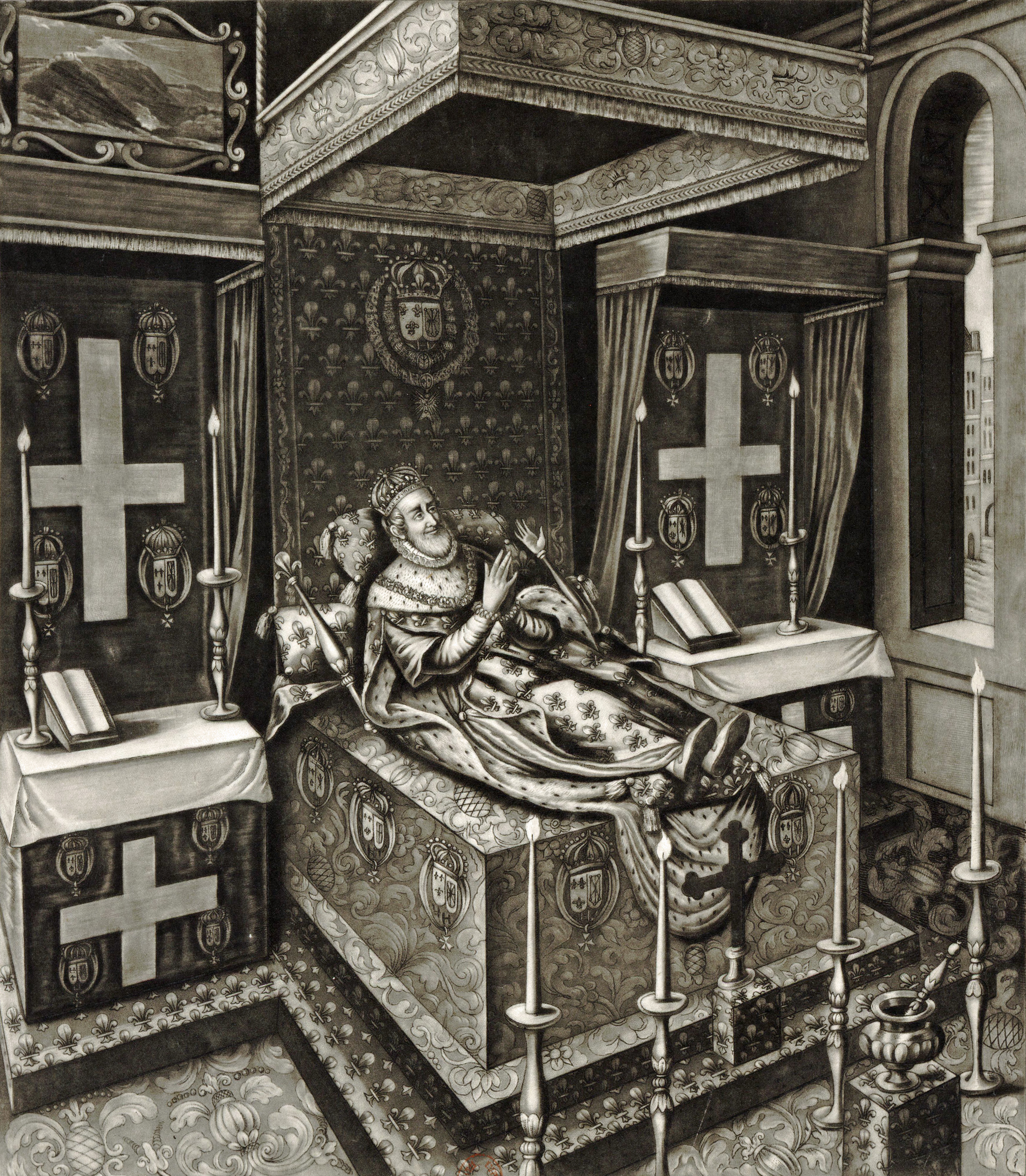 Caption: "The most high puissant and excellent Prince Henry the Great, King of France, and Navarre, &c. &c. as he lay in state after his murder, anno 1610. Engraved by R. Dunkarton from a rare print engraved by J. Briot, after Quesnel. London: Published by S. Woodburn, 112 St. Martin's Lane. Proof"